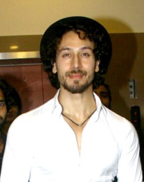 This is image of Tiger Shroff.